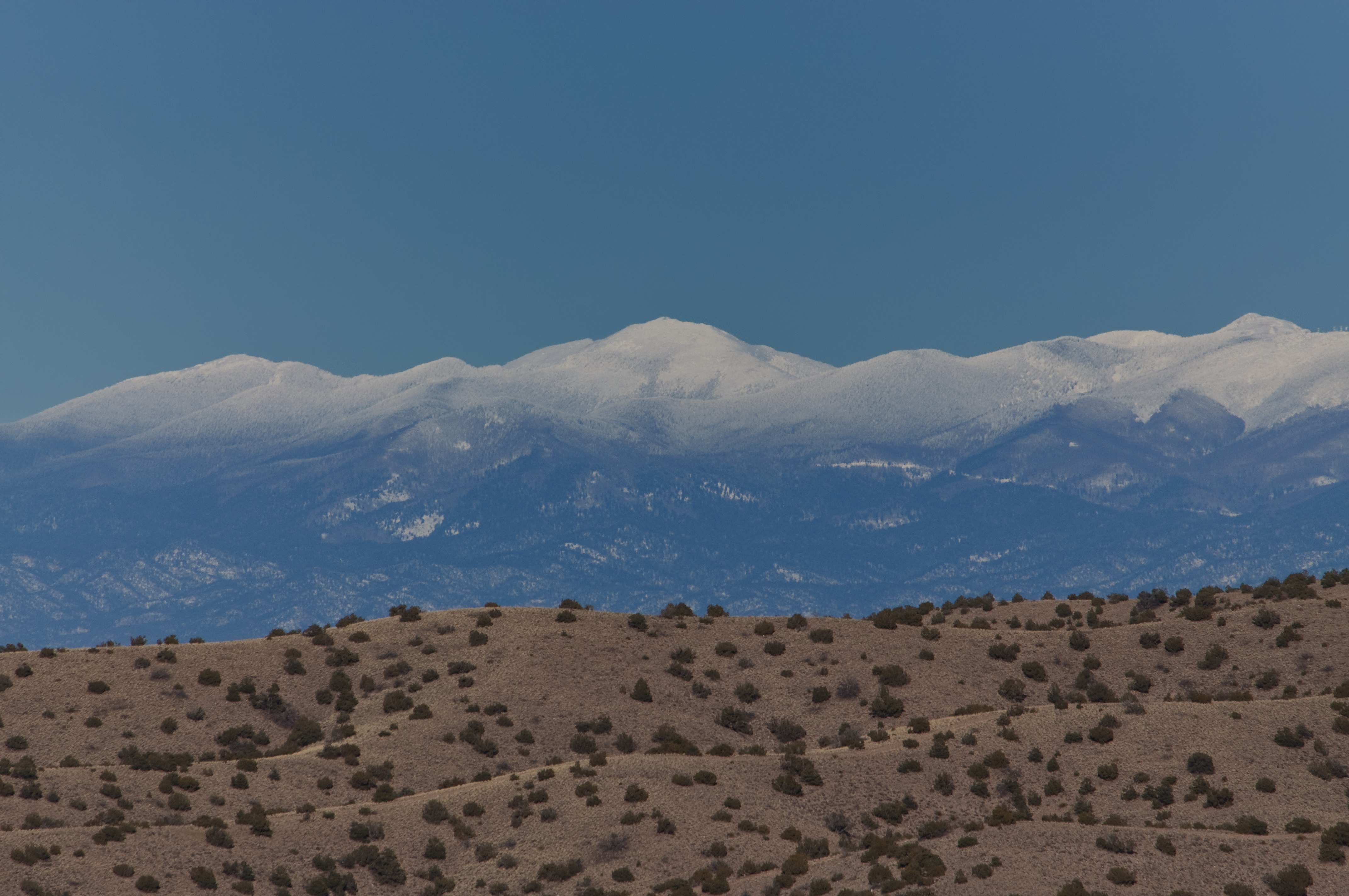 Santa Fe Baldy, taken from the deck with a tripod. 400 mm f/9 iso 200. About 50 miles distant. Tomorrow I plan to drive over there and get some more shots.